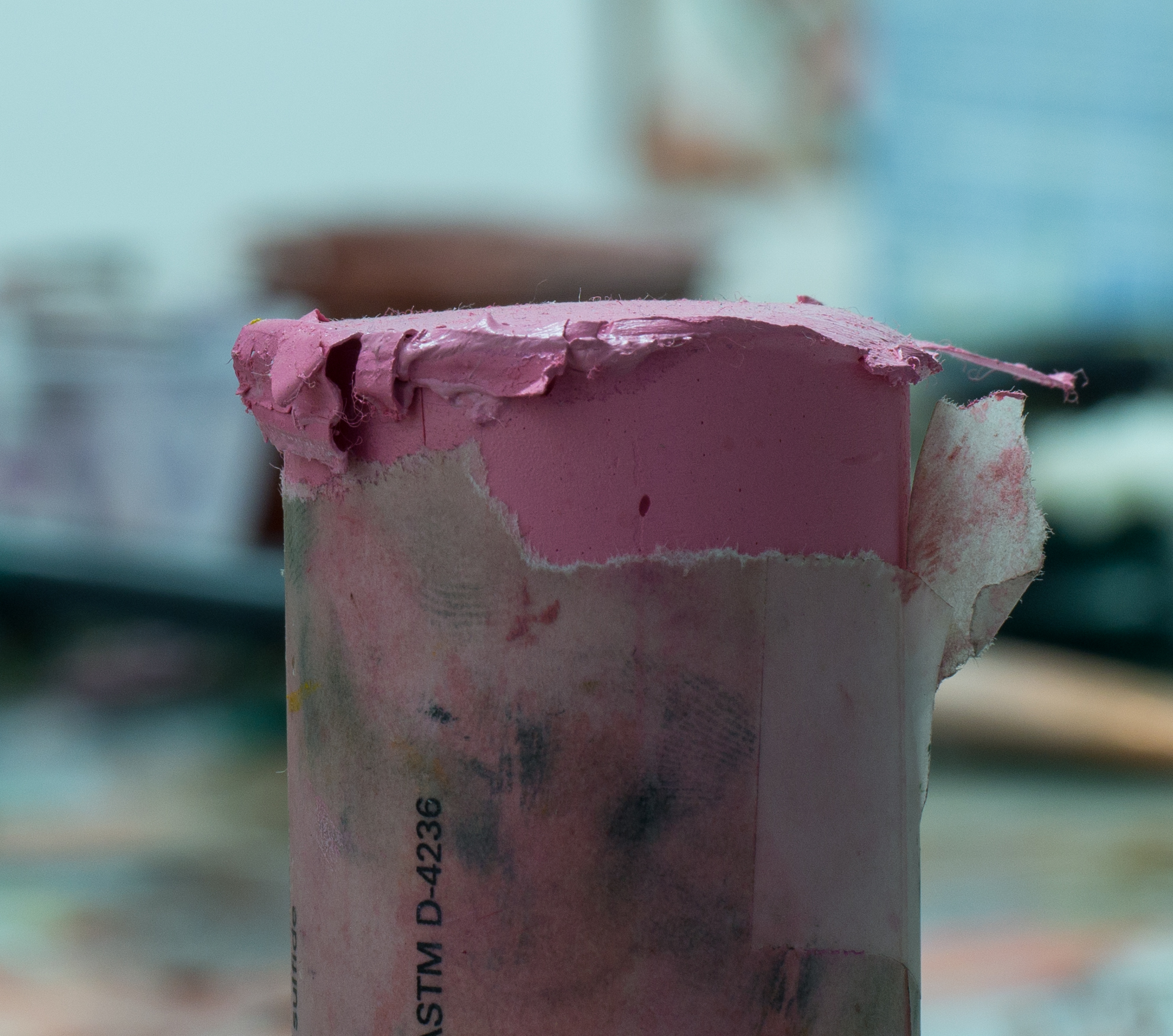 Dianthus pink pigment stick